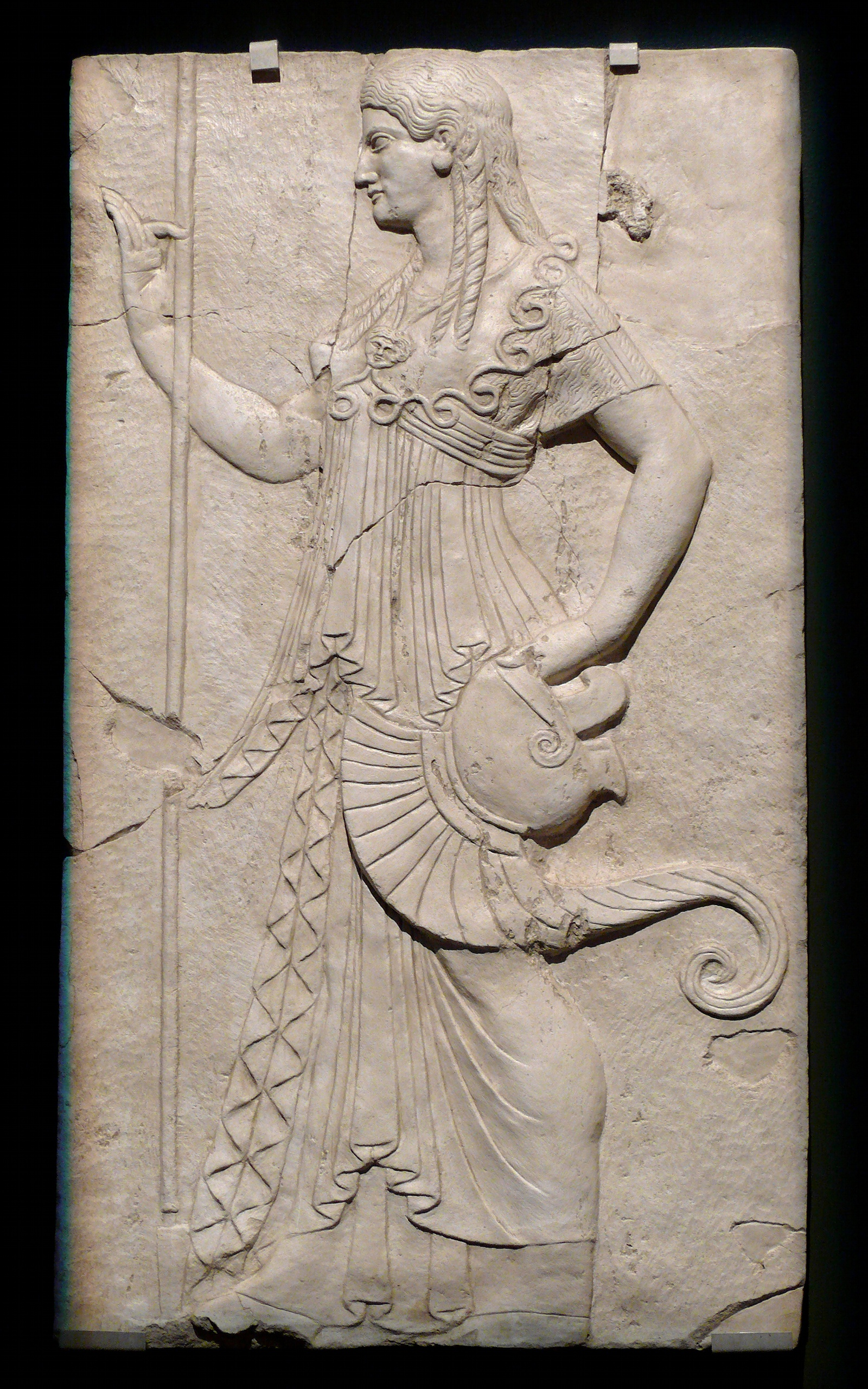 Bas-relief sculpture of the Roman goddess Minerva recovered from the ruins of Herculaneum (Area Sacra Suburbana), on display as part of the A Day In Pompeii exhibit at the Discovery Place science museum. (Herculaneum, deposito archeologico, inv. nr. 3618 / 78915. Dimensions cm 50,4 x 91). NOTE: The turquoise line along the left side of the relief is a visual artifact produced by the lighting in the exhibit hall. The color is not part of the sculpture. Photo taken with a Panasonic Lumix DMC-FZ50 in Charlotte, NC, USA. Cropping and post-processing performed with The GIMP.